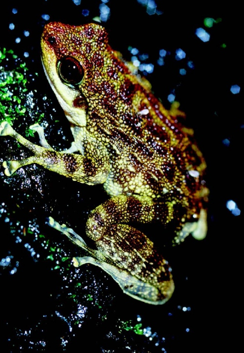 Odontobatrachus arndti Mt. Sangbé, Côte d’Ivoire.